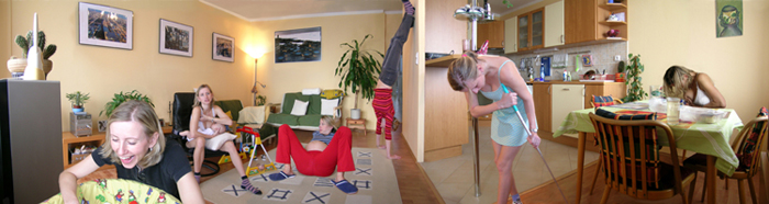 Fotografie Sylvy Francové; Sylva Francová´s photographs Neměňte rozlišení. Don´t change resolution! Personality rights warningAlthough this work is freely licensed or in the public domain, the person(s) shown may have rights that legally restrict certain re-uses unless those depicted consent to such uses. In these cases, a model release or other evidence of consent could protect you from infringement claims.